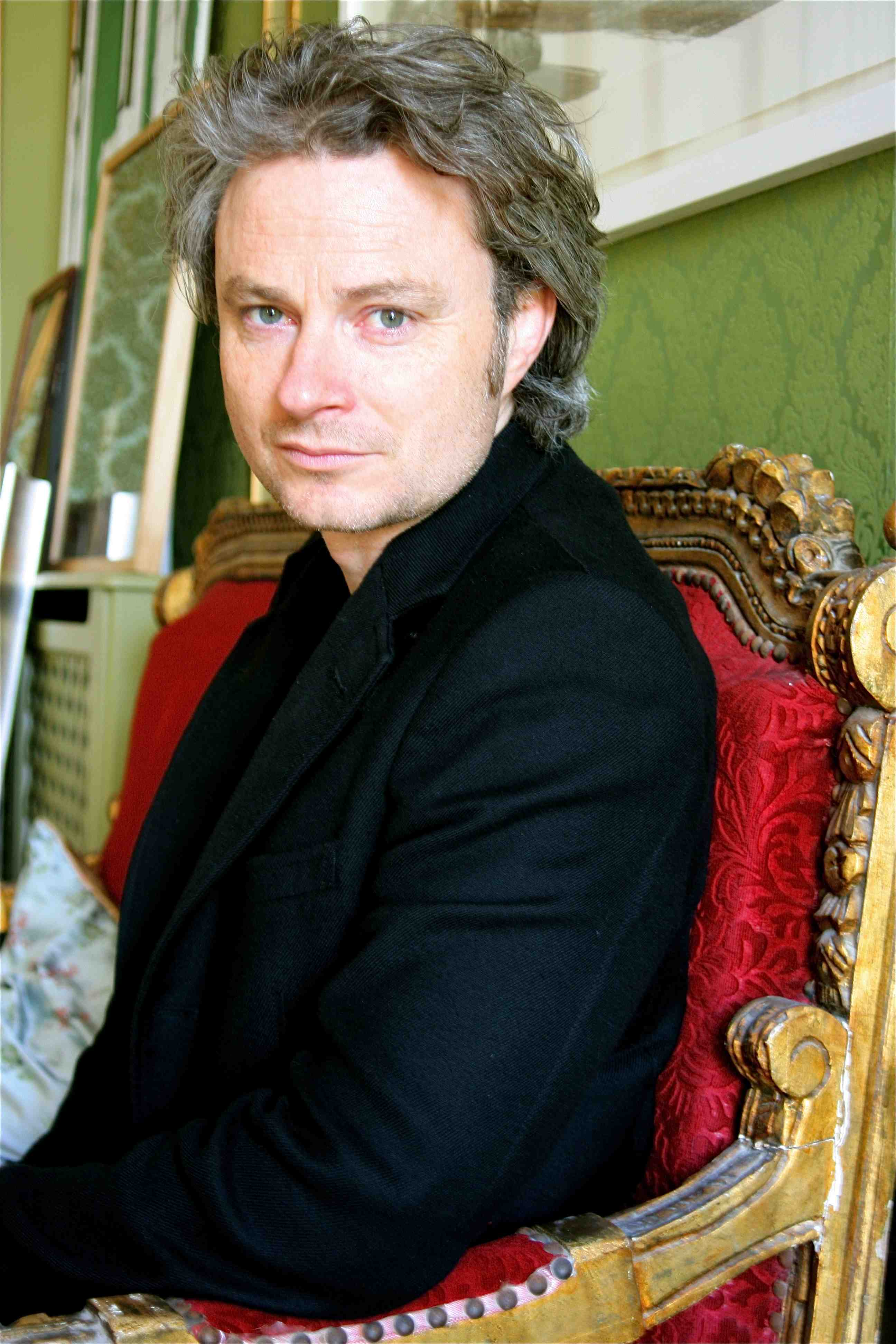 Picture of author Simon Toyne